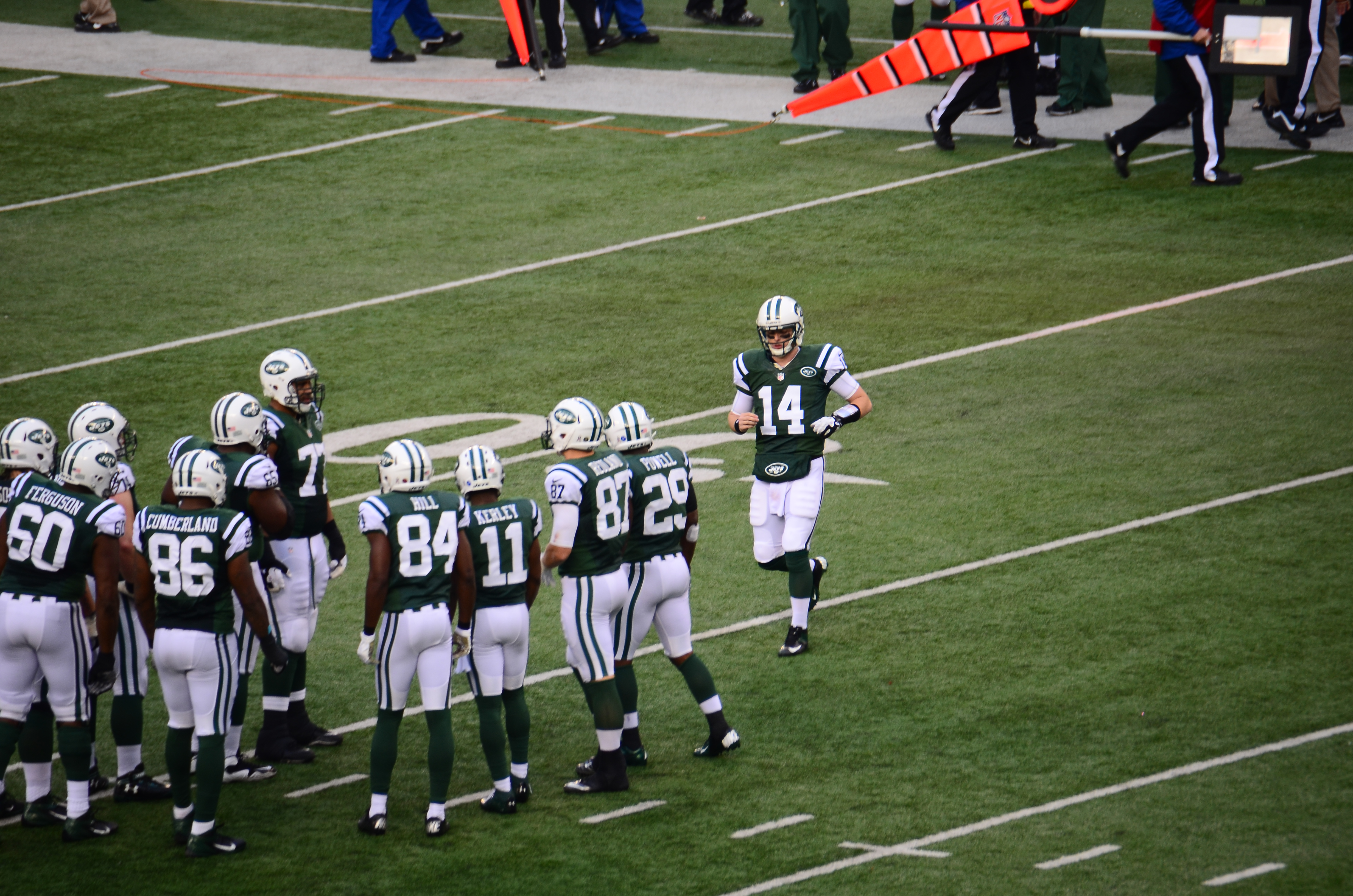 New York Jets quarterback Greg McElroy enters the huddle in between plays.